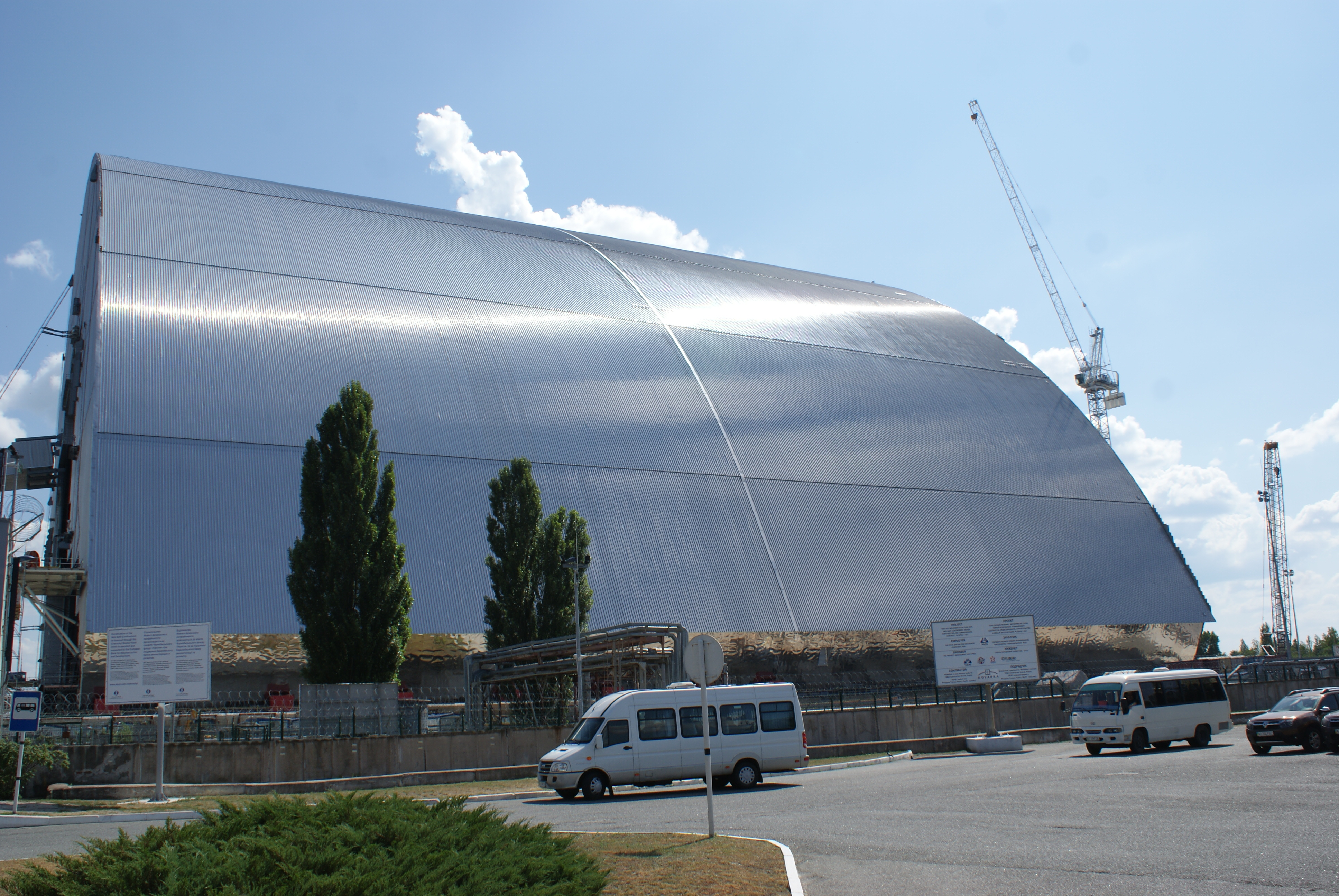 New Safe Confinement Structure The NSC structure is currently being built. It is a vast building which is being built on rails to allow it to be slid over the old sarcophagus.